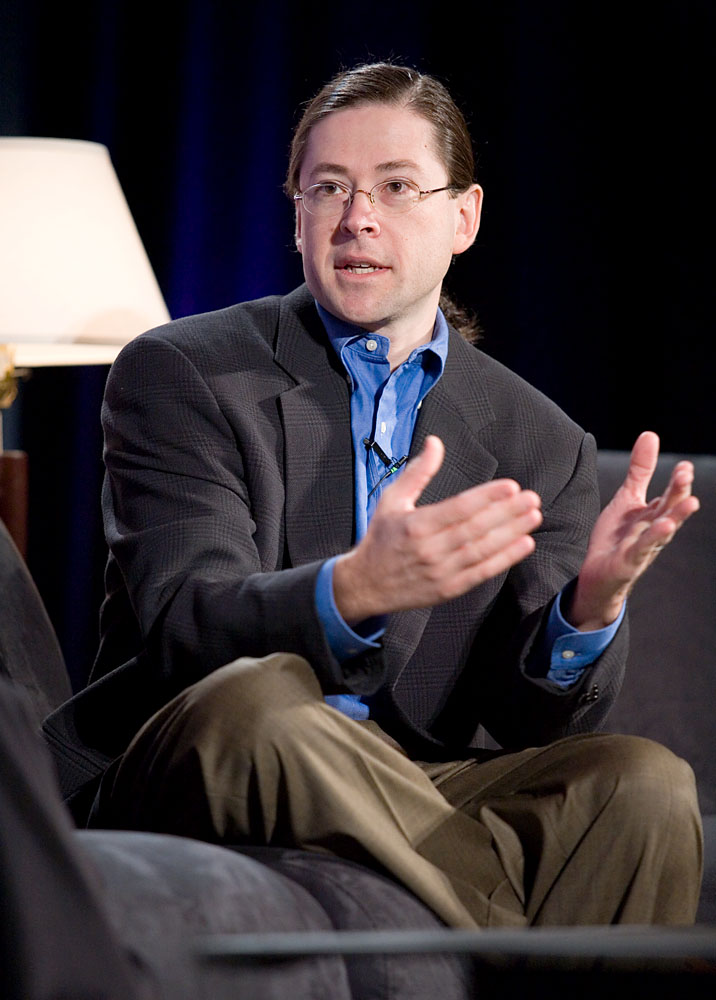 Photograph of Jonathan Schwartz speaking at the 2005 Web 2.0 Conference in San Francisco, CA.